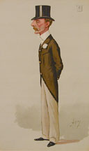 Men of the Day No.0377: Caricature of Sir HM Meysey-Thompson Bt. Caption reads: "Coaching"